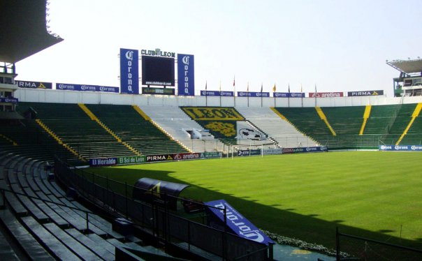 stadium leon